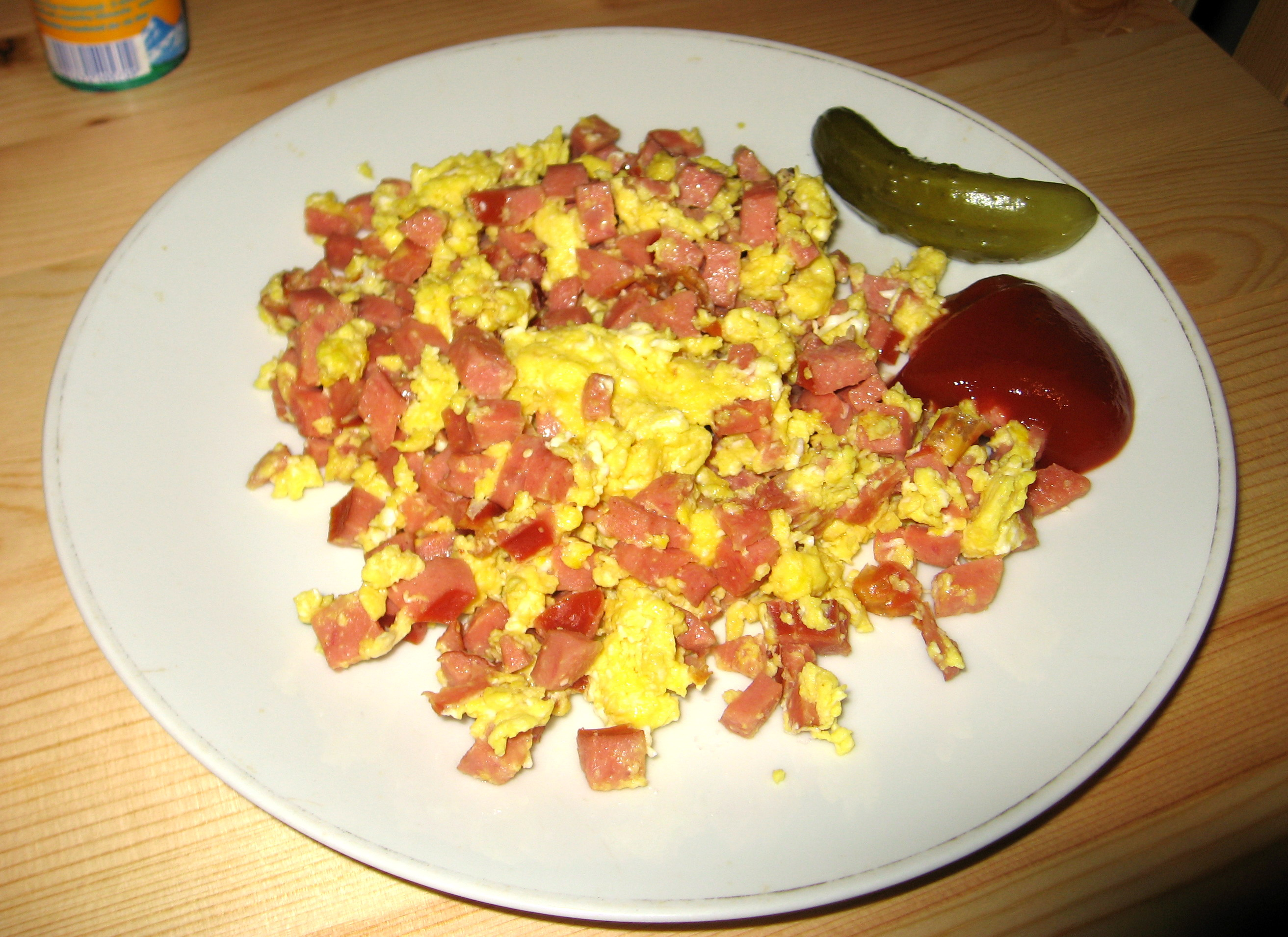 sliced fried Sausage with eggs, ketchup, pickled cucumber